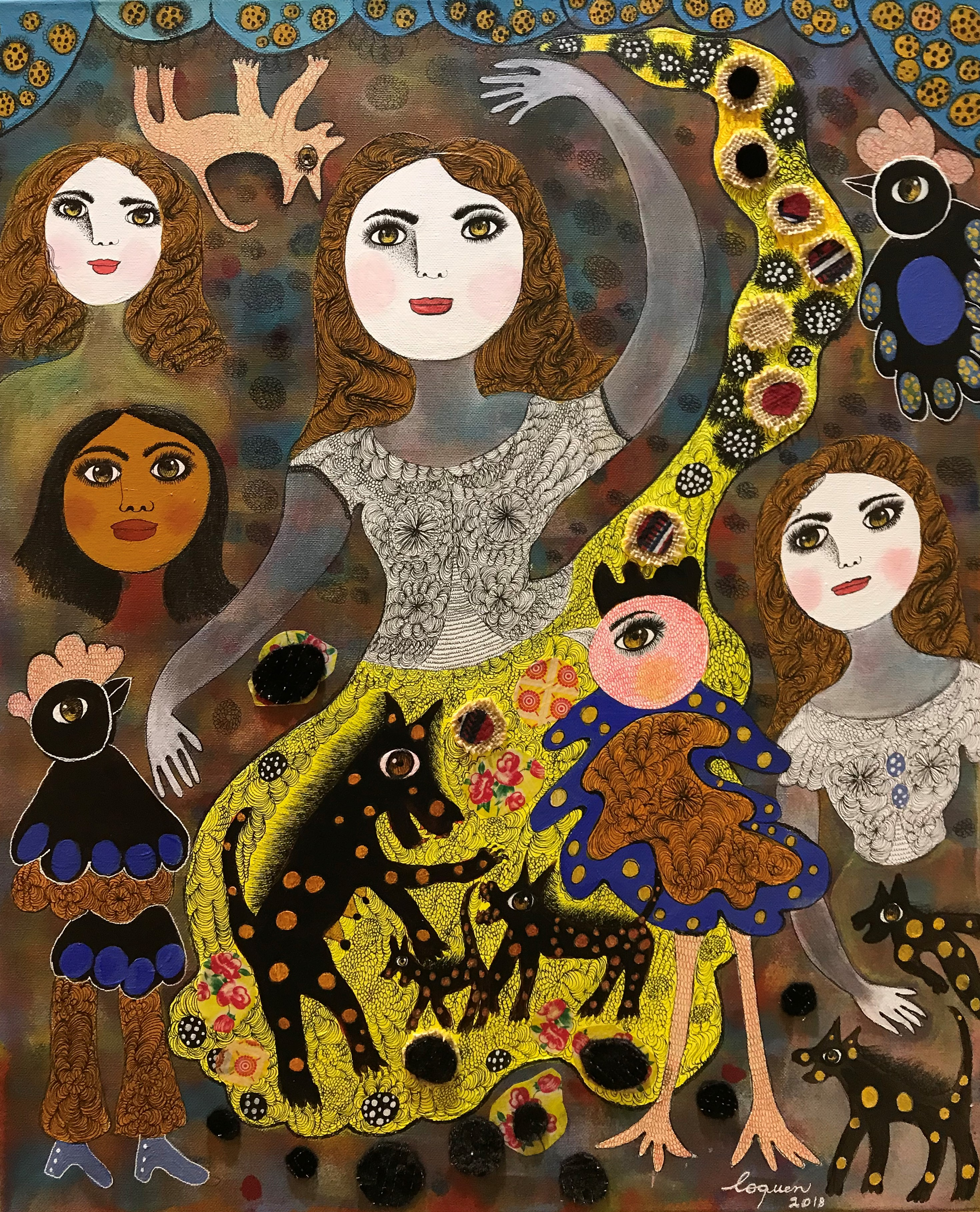 Painting "Notre Dame de Paris, Esmeralda" by Claudine Loquen; Mixt media on canvas 100x80